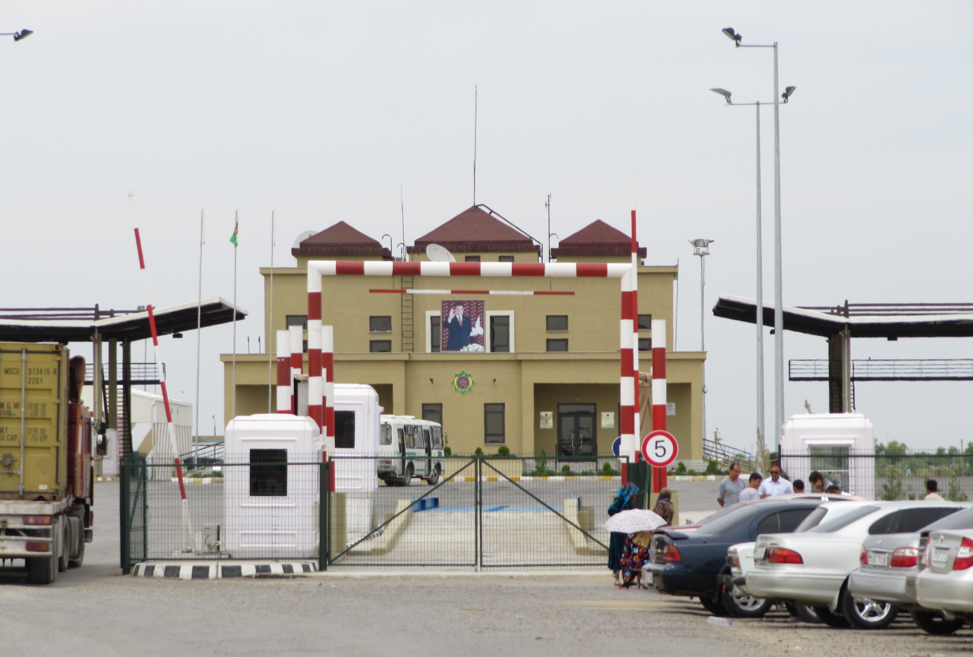 Farab Uzbek-Turkmen border crossing - Turkmen side